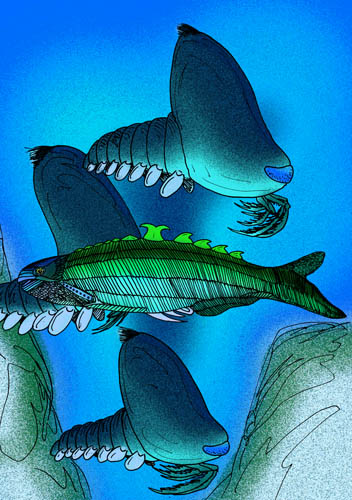 The Silurian anaspid, Birkenia elegans, of what is now Great Britain, in comparison with the thylacocephalid crustacean, Ainiktozoon loganese. (C) Stanton F. Fink